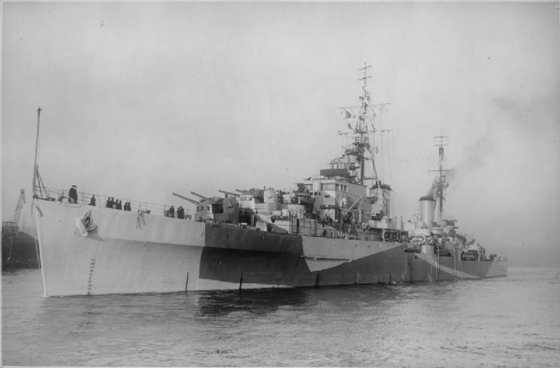 British light cruiser HMS DIADEM on the River Tyne.